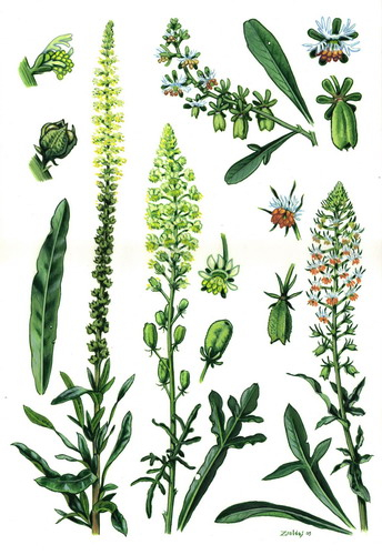 Mignonette (Reseda) is a genus of fragrant herbaceous plants native to the Mediterranean region and southwest Asia, from the Canary Islands and Iberia east to northwest India.